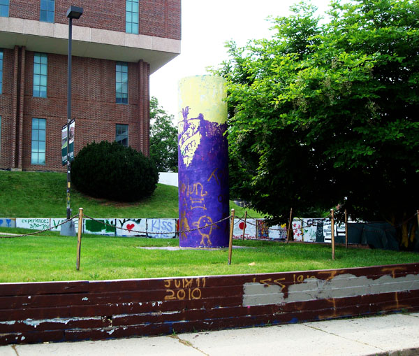 Pray Harrold Kiosk at Eastern Michigan University in Ypsilanti Michigan